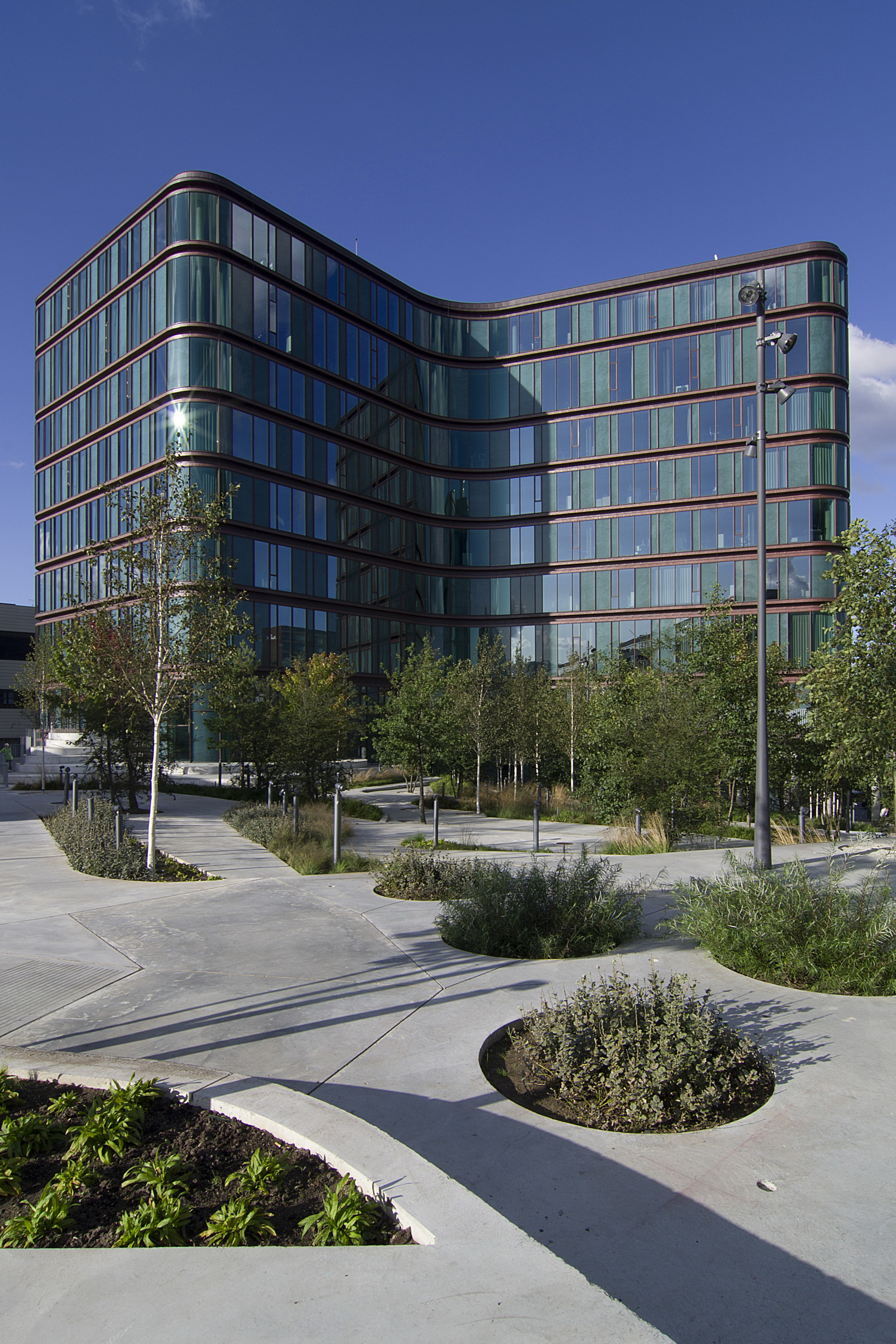 The landscape in front of SEB Bank in Copenhagen, Denmark